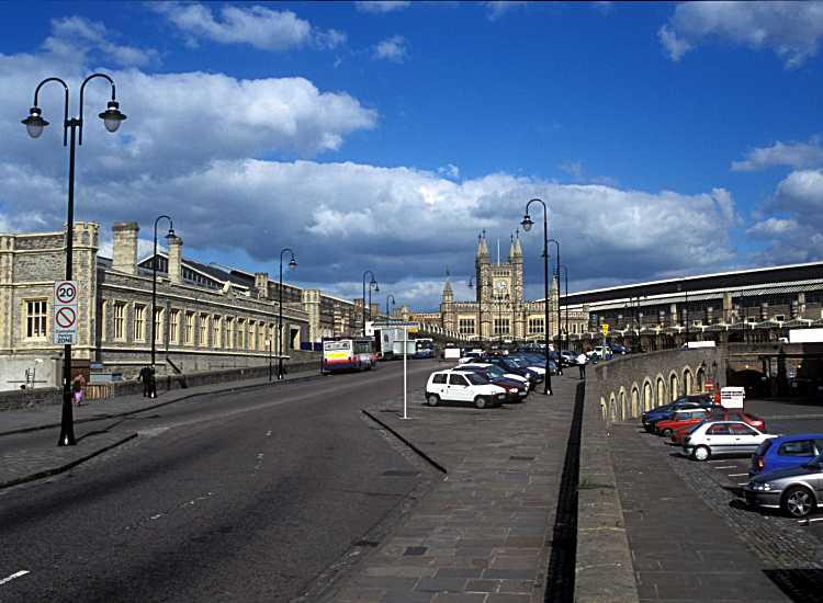 Bristol Temple Meads railway station with Isambard Kingdom Brunel's original terminal station on the left and Matthew Digby Wyatt's through station on the far right. Photograph taken by Rob Brewer in October 2002